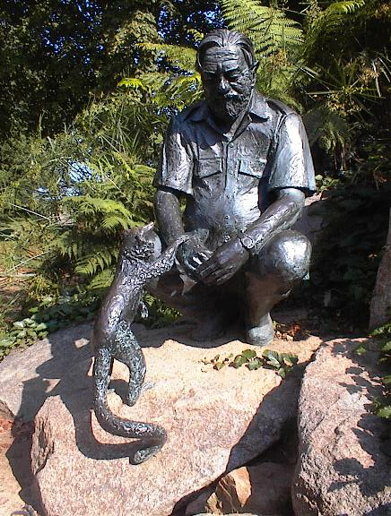 Statue of Gerald Durrell at Jersey Zoo, Jersey , sculpted by John Doubleday